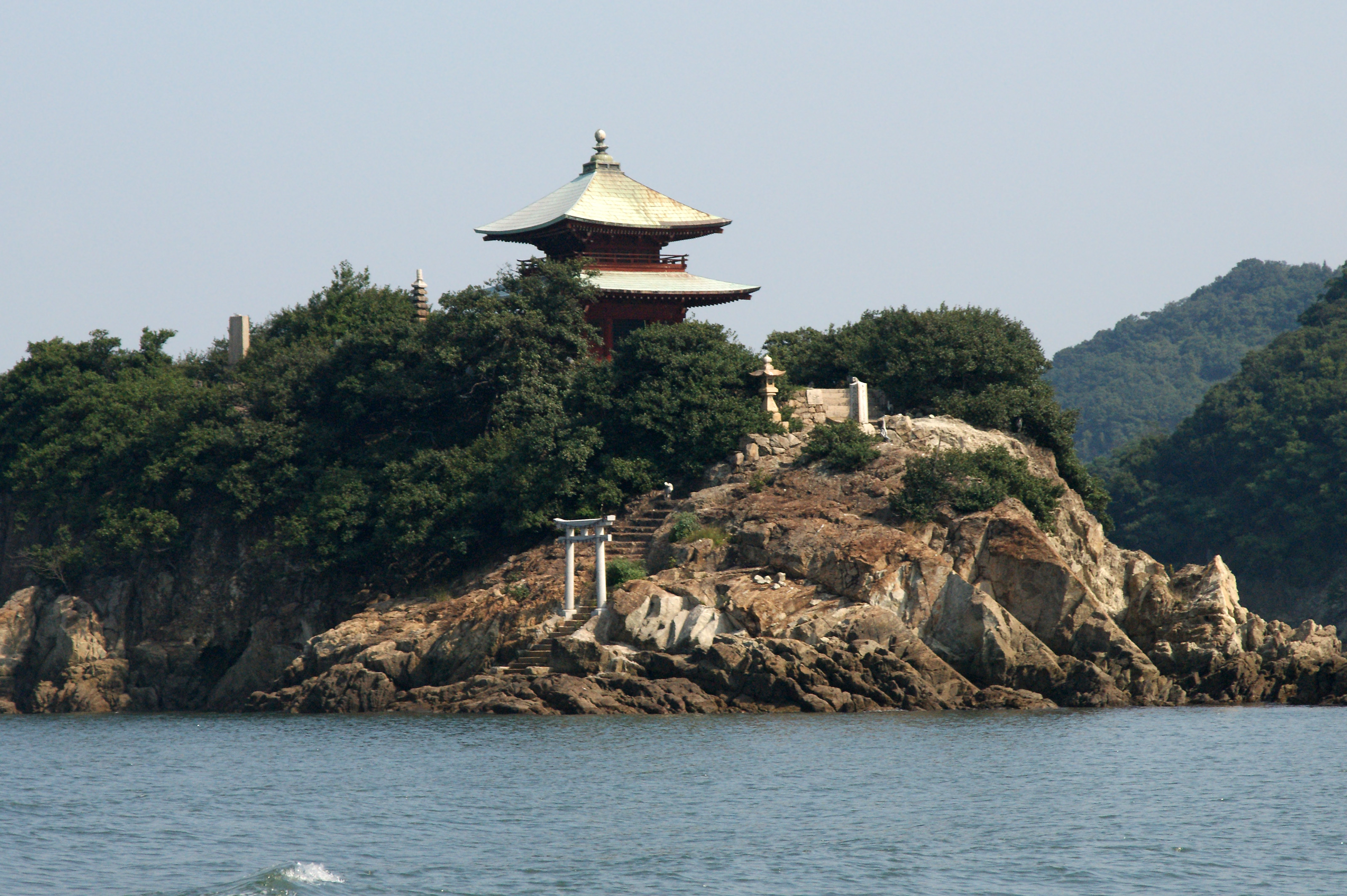 Benten Island, Fukuyama, Hiroshima Prefecture, Japan